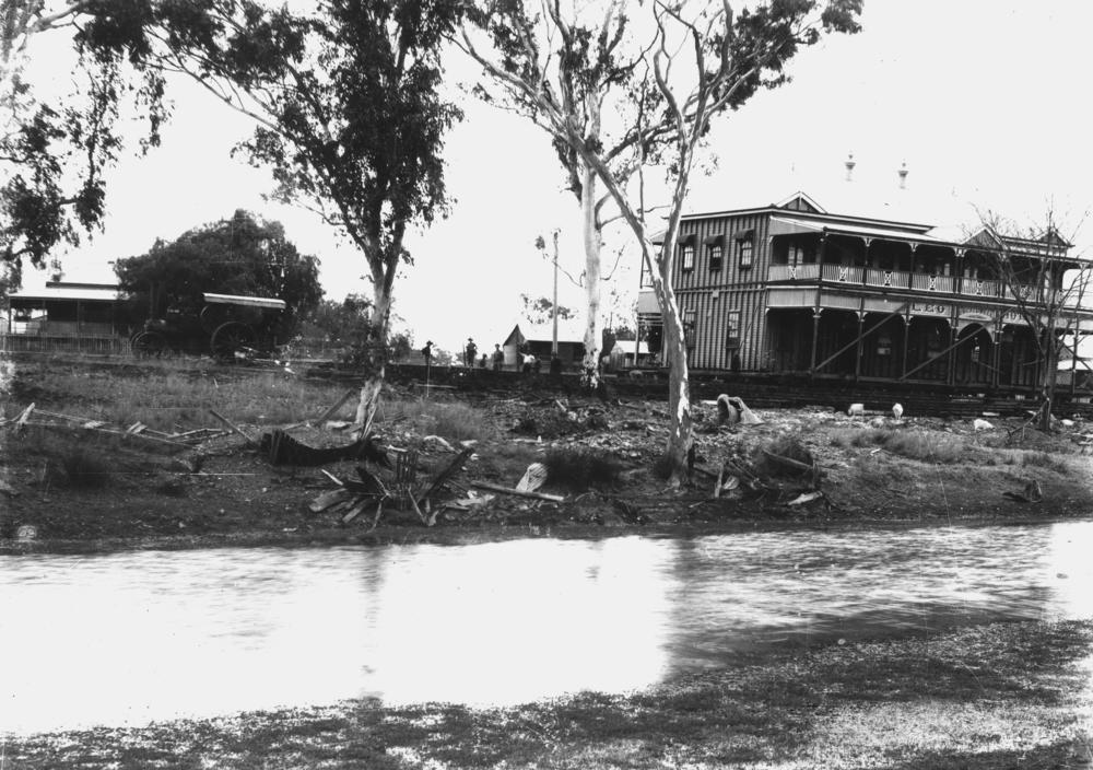 Leo Hotel moving along Lime Street, Clermont, 1917. Following the flood that virtually destroyed Clermont in December 1916, the people of Clermont voted to move the town to higher ground. 'Each building was raised on jacks and timber rails laid underneath it and for about one hundred metres ahead. A steam traction engine then winched the building slowly along the track. When it came to the end of the track, the rails were collected and laid down in front for another hundred metres. ...Considering the size of the task of moving a hotel, the procedure did not take long. The contract to move the Grand Hotel was signed in June 1917, the steam engine began its work on 16 August and by 15 September the Grand was opposite its new site on the corner of Capella and Daintree Streets. While the hotel was 'on the road', the boarders had their meals served in the dining room as usual and slept in their rooms each night. The other hotels were also moved in this way, although the Commercial, being so large and built in an 'L' shape plan, was sawn in half and moved in two sections. Other buildings moved by traction engine included several houses and Griffin's store.' (Information taken from: G.C. Pullar, A shifting town : glass-plate images of Clermont and its people, 1986). Men can be seen standing along the tracks which have been laid for the traction engine to pull the Leo Hotel to its new location.